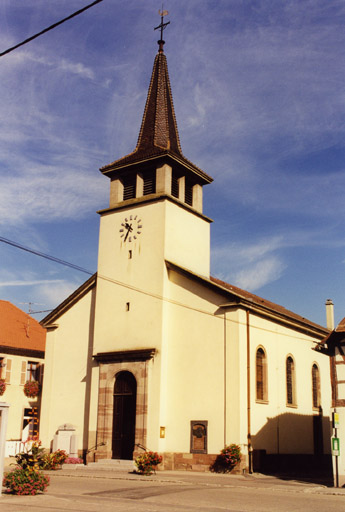 church Saint-Jacques-le-Majeur